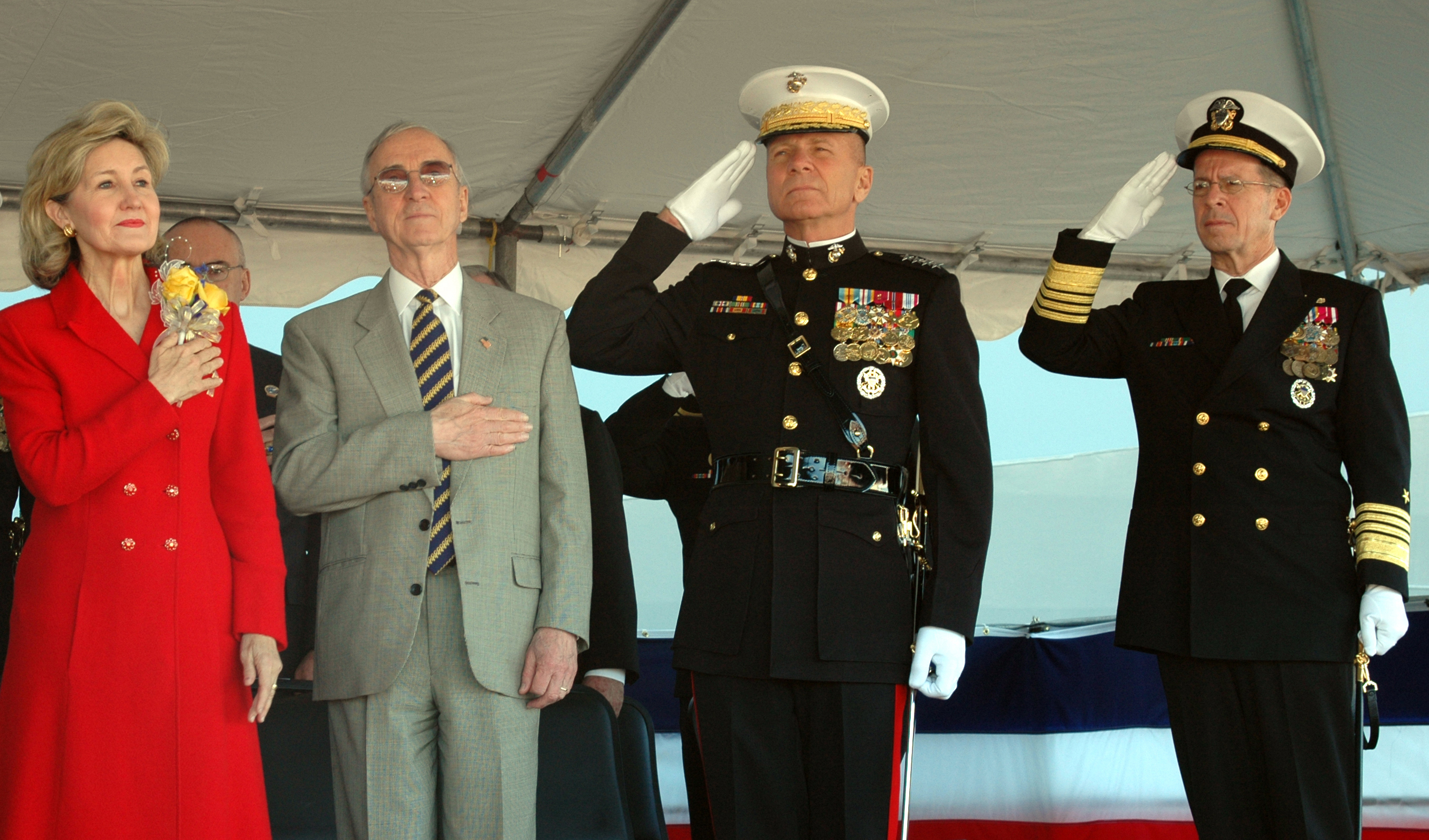 Naval Station Ingleside, (Jan.14, 2006) – From left to right, Ship’s sponsor the Honorable Senator Kay Bailey Hutchinson, Deputy Secretary of Defense the honorable Gordon R. England, Commandant of the Marine Corps, Gen Michel W. Hagee, and Chief of Naval Operations Adm. Mike Mullen salute the colors during the commissioning ceremony for USS San Antonio (LPD 17). As the first in her class, USS San Antonio (LPD 17) represents a key element of the Navy’s seabase transformation. Collectively, San Antonio-class will functionally replace over 41 ships (LPD 4, LSD 36, LKA 113, and LST 1179 classes of amphibious ships) providing the Navy and Marine Corps with modern, seabased platforms that are networked, survivable, and built to operate with 21st century transformational platforms, such as the MV-22 Osprey, the Expeditionary Fighting Vehicle (EFV), and future means by which Marines are delivered ashore. San Antonio will be homeported at Naval Station Norfolk, Va. U.S. Navy photo by Journalist Seaman Apprentice Charles A. Ordoqui (RELEASED)